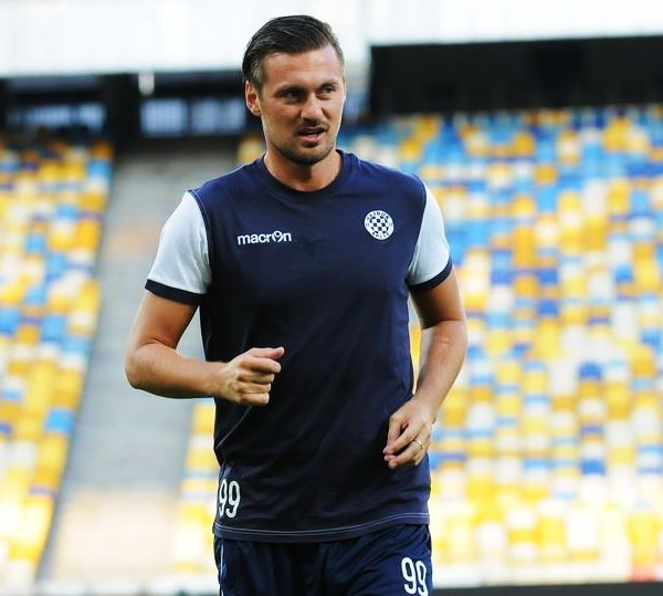 Artem Milevskyy